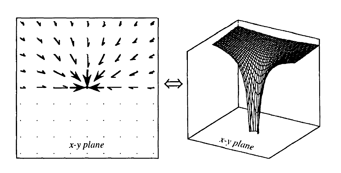 A 2-D slice of a gravitational force vector field (left) is interchangable with a 3-D gravity well (right), with the z-axis showing energy (potential). The gradient at any point on the potential surface is the negative force vector in the x-y plane. Each x-y point of the force vector function has a one-to-one correspondence to the x-y point on the scalar potential function, and vice-versa. Note: Half of the field has been cut away for clarity. Gravity well graphic generated by HiQ. PDF image edited with GIMP.